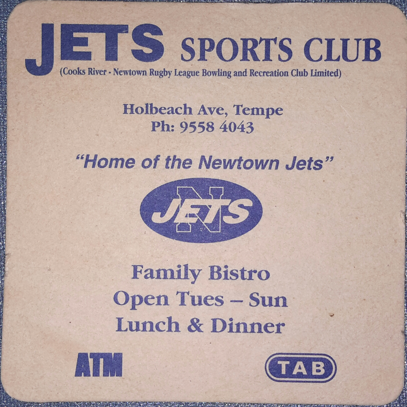 Jets Sports Club beer mat